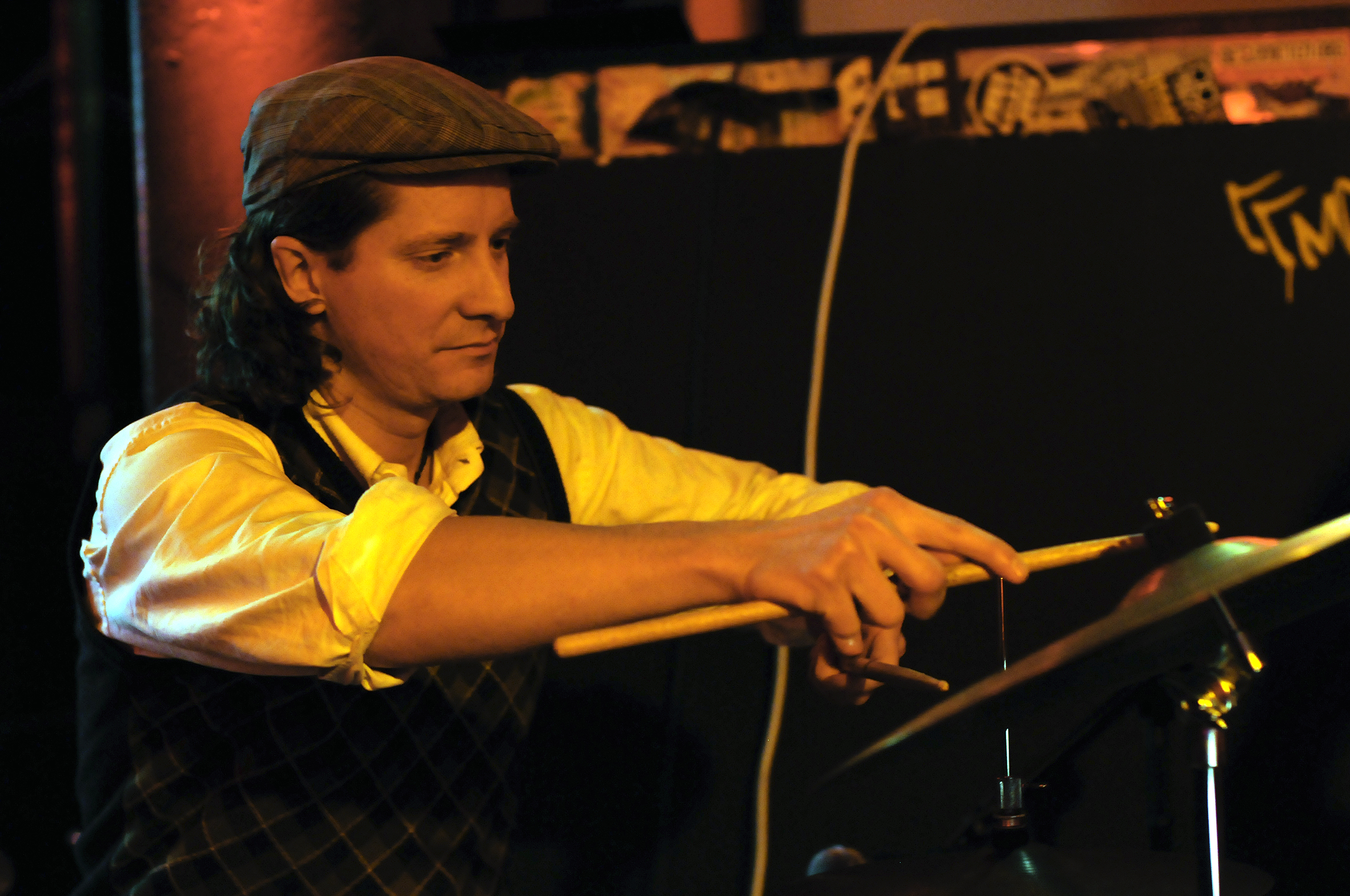 Jens Düppe in concert at ARTheater Köln, Germany, November 29th, 2011